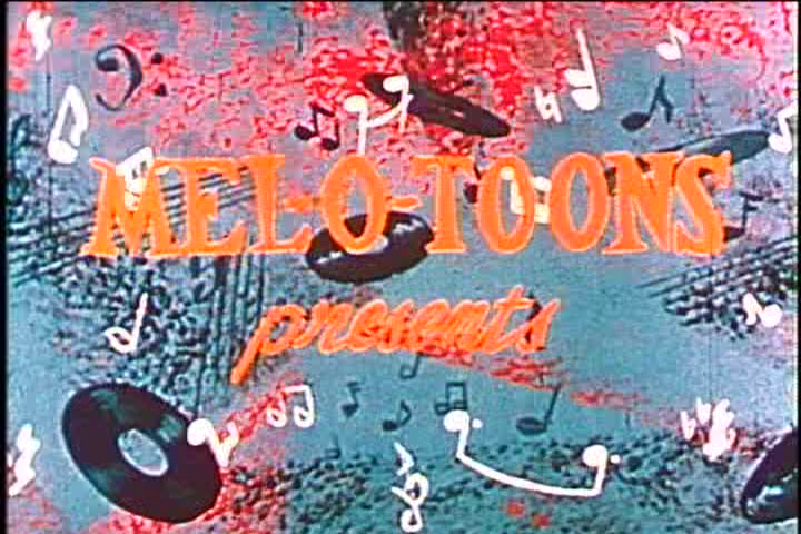 The normal title sequence of Mel-O-Toons cartoons